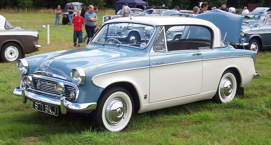 Summary Sunbeam Rapier Series I. Picture by David Parrott.(DVLA) first registered 4 September 1957, 1390 cc